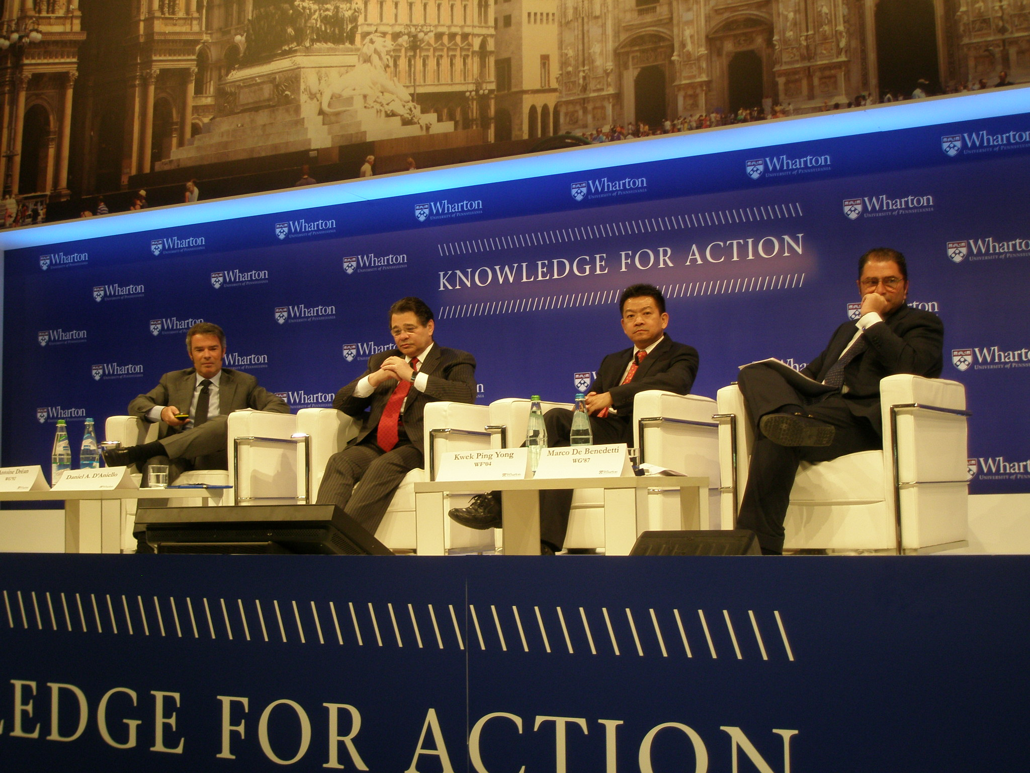 Panel at the Wharton Alumni Global Forum in Milan 2012